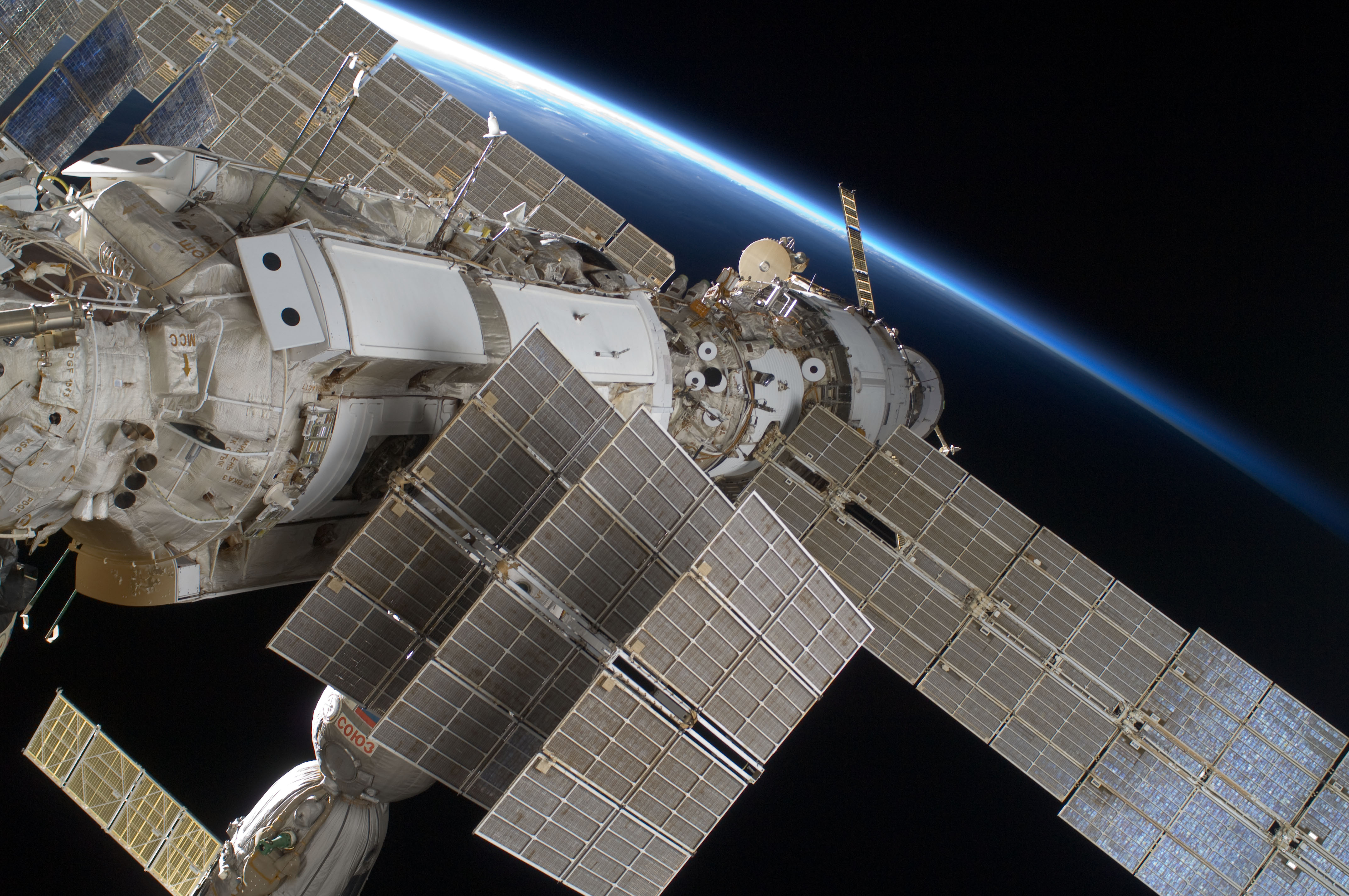 A portion of the International Space Station is featured in this image photographed by a space walking astronaut during the STS-128 mission's second session of extravehicular activity (EVA) as construction and maintenance continue on the station. The blackness of space and Earth's horizon provide the backdrop for the scene.